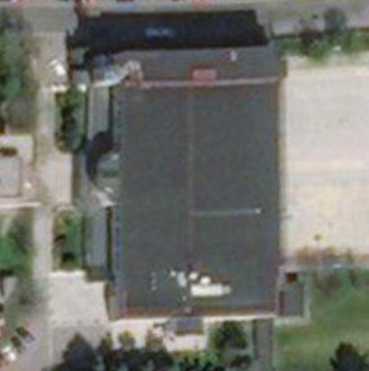 Satellite view